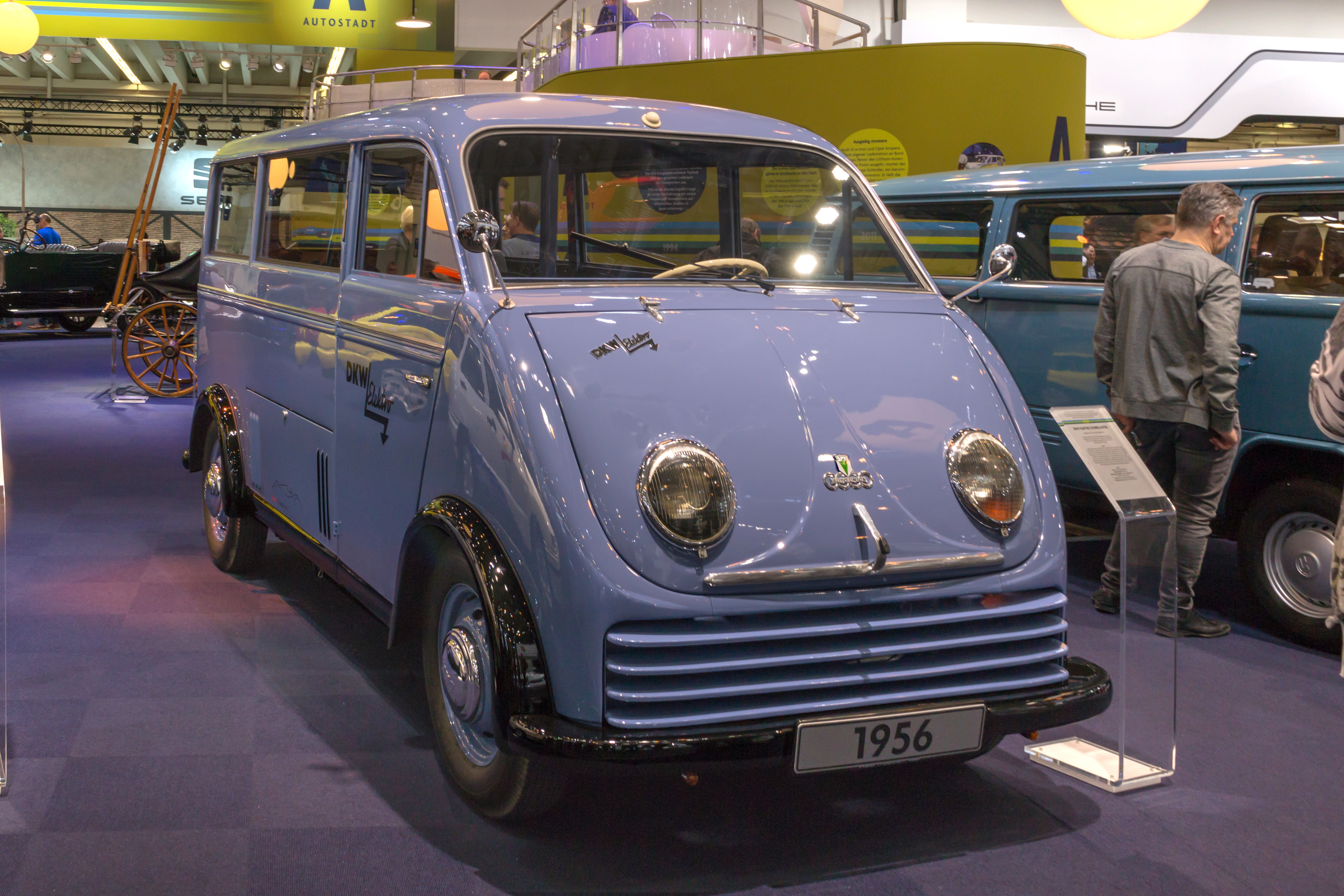 Techno Classica 2018, Essen